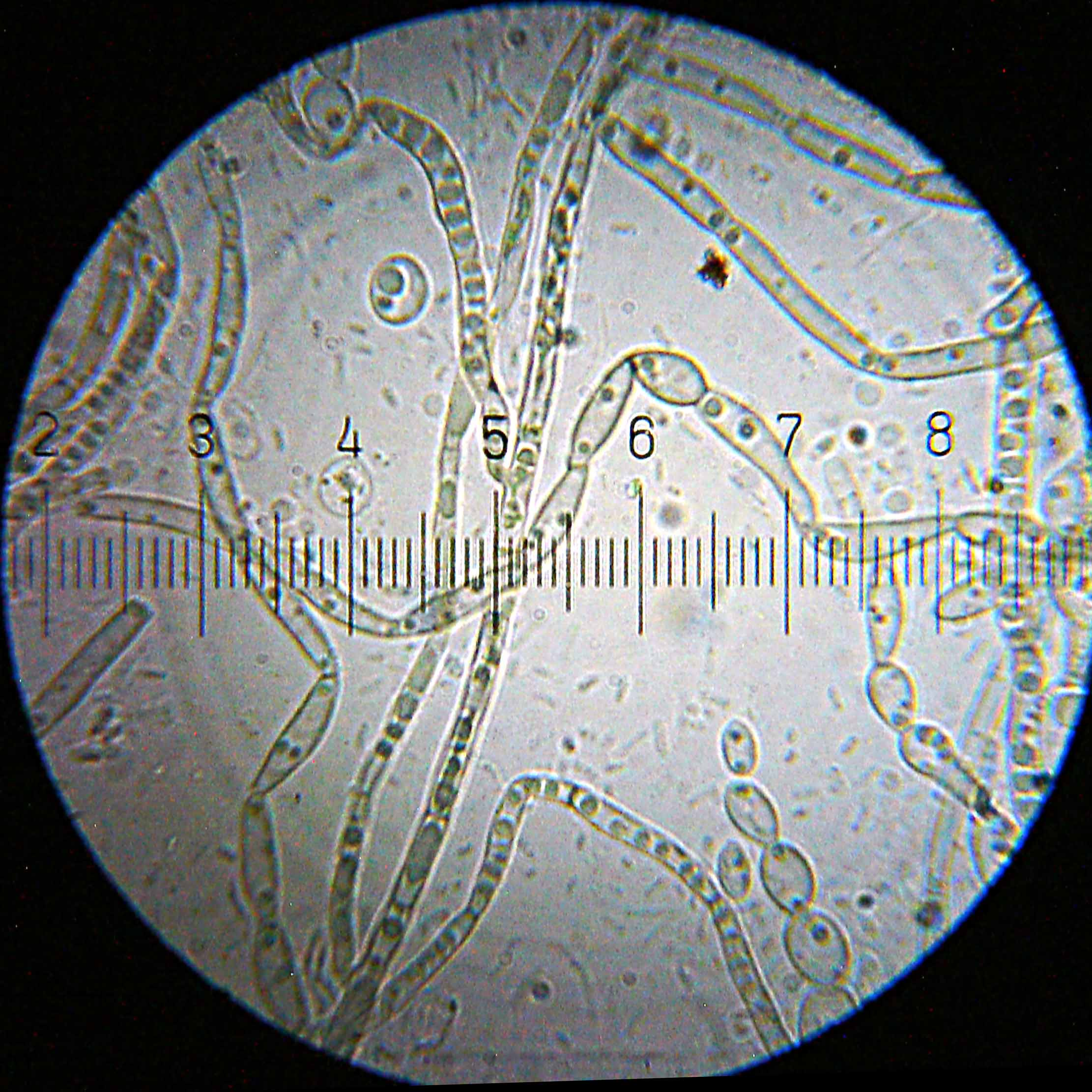 Mildew growing on a plastic shower curtain. 100× oil-immersion objective, 15× eyepiece; the numbered ticks on the scale are eleven (11) microns apart. (Yes, eleven microns, not ten. Someone has been editing the descriptions on some of my files to “correct” odd measurements such as this. Please do not do that. The scale is built into my 15× eyepiece, and how it actually scales depends on the objective with which I use it. With this 100× objective, the numbered ticks really do represent a distance of eleven (11) microns. As much as you and I might wish it to be a nicer number, such as ten, it isn't; and if you edit this description to say that it is, then you are wrong for doing so.) In the full-sized version of this image, each pixel represents a square that is approximately 0.038 of a micron, or 38 nanometers.